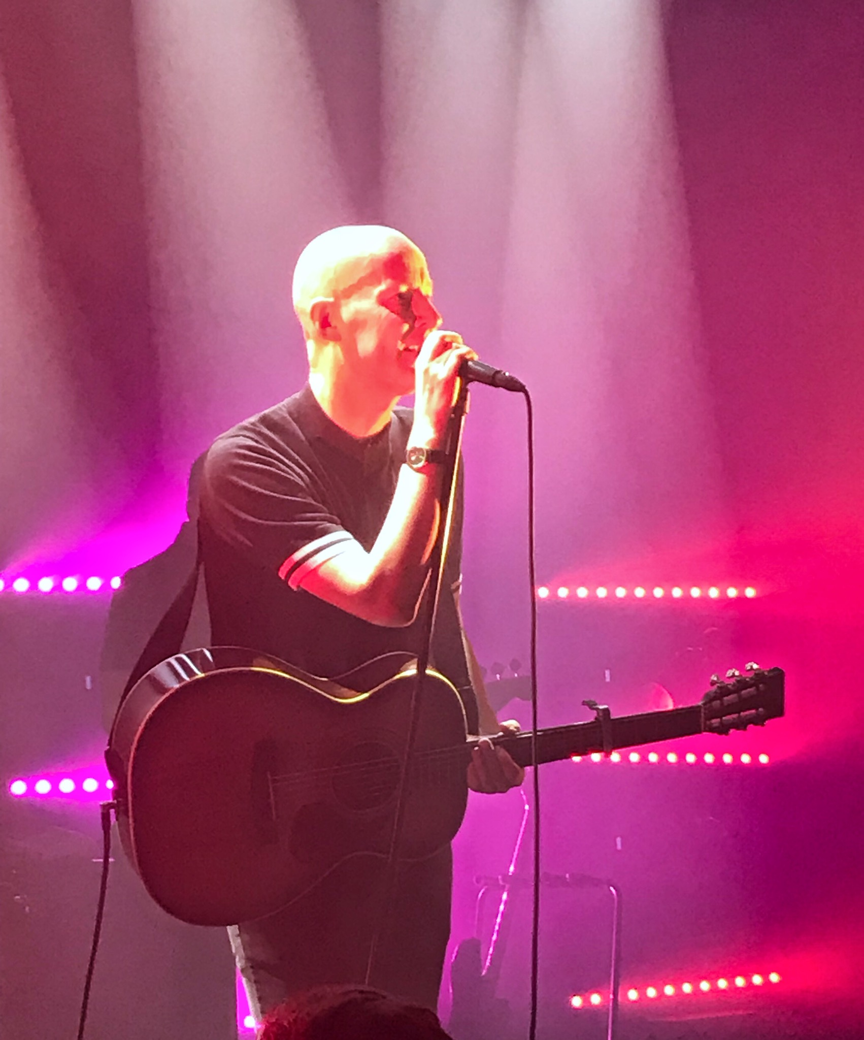 Jens Unmack with Love Shop 5 April 2019